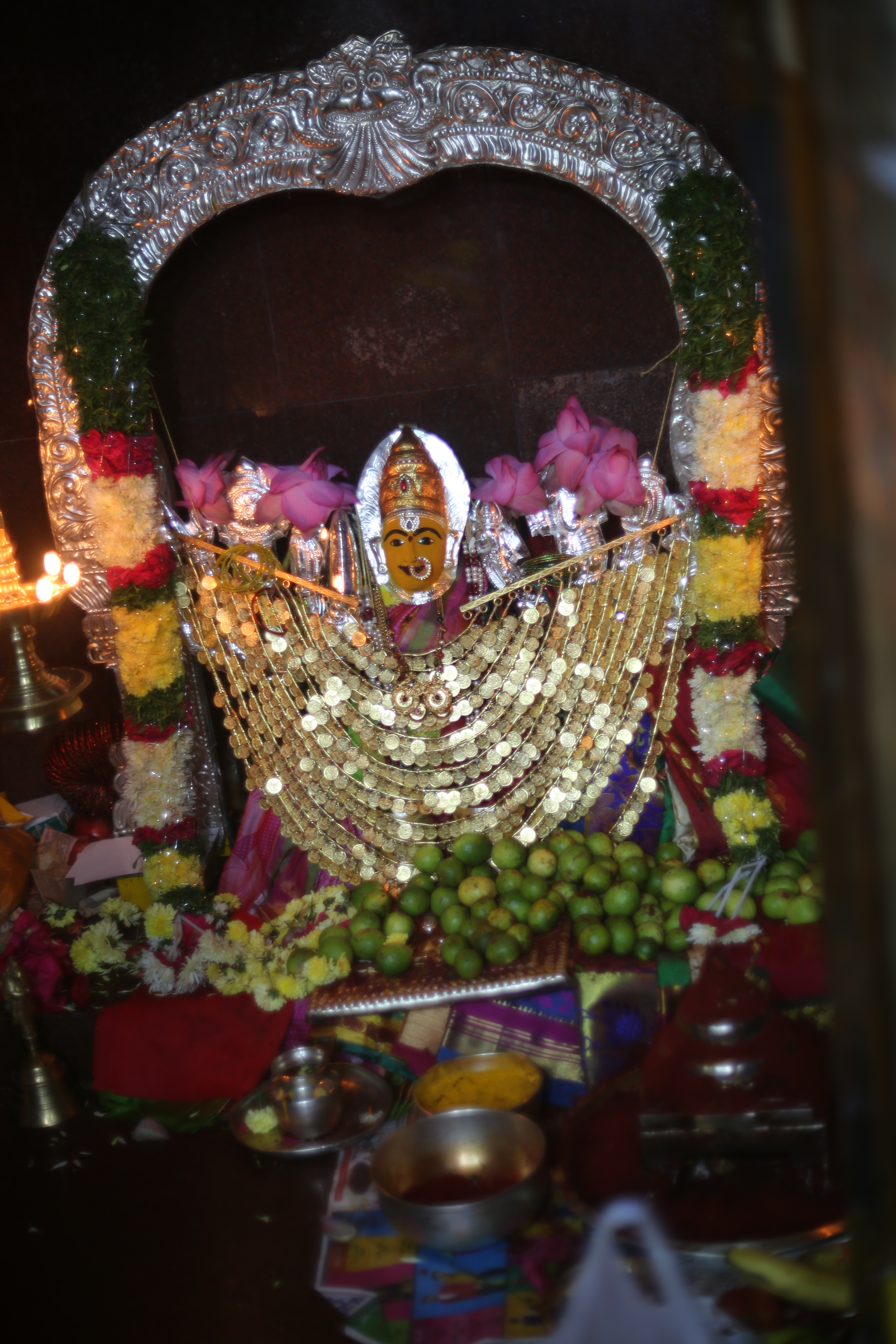 Sri Kanaka Durga temple is situated in Dilshuk Nagar hyderabad on the vijayawada high way one of the most power full and oldest temples of durga matha in hyderabad .